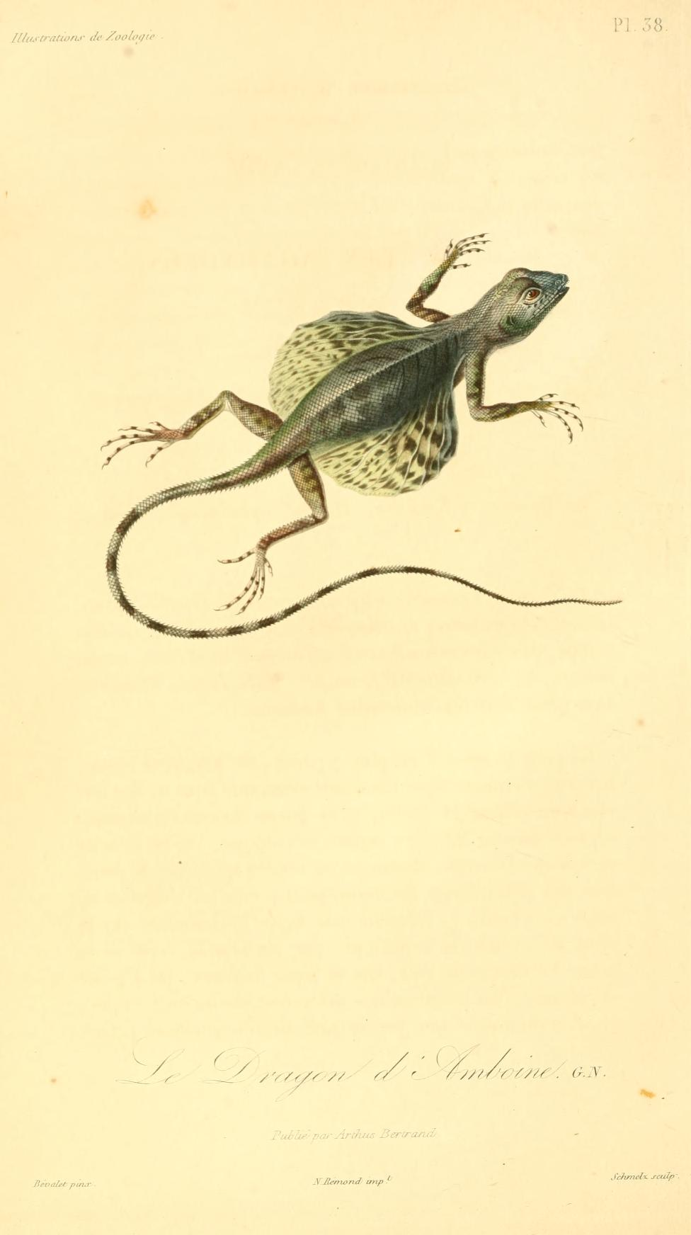 « Dragon d'Amboine, Draco Amboinensis » = Draco lineatus